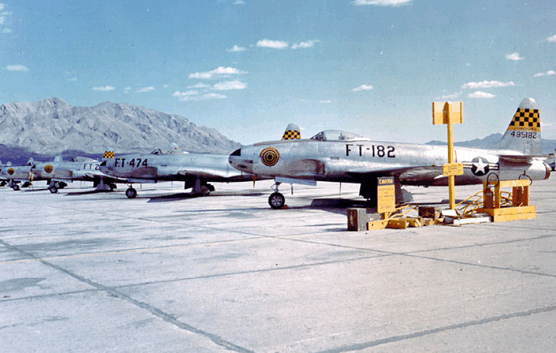 F-94 Starfires, ((( NO THESE ARE NOT, THESE ARE LOCKHEED P-80 SHOOTING STARS ))) ((( "57th Operations Group - Wikipedia, the free encyclopedia" is the origin of this photo and somewhere along the line you deviated from the correct info )))57th Fighter-Interceptor Group, Elmendorf AFB, Alaska, 1951 So sorry to whoever originally posted this, but, this is not a photo taken at Elmendorf AFB. I'm not sure where it was taken but those are not the Chugach mountains in the background. In fact I would go one step further and say that this photo was not taken in Alaska at all, rather someplace arid from the looks of the mountains, and the ecosystem at the elevation of the ramp would most likely be that similar to a desert.